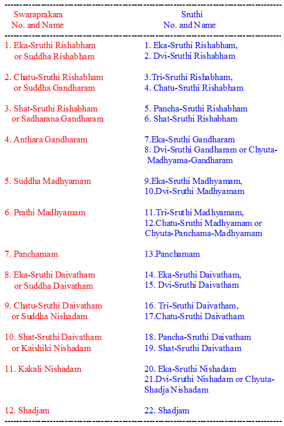 Nomenclature of 22 Shrutis or Swaras in Carnatic Music